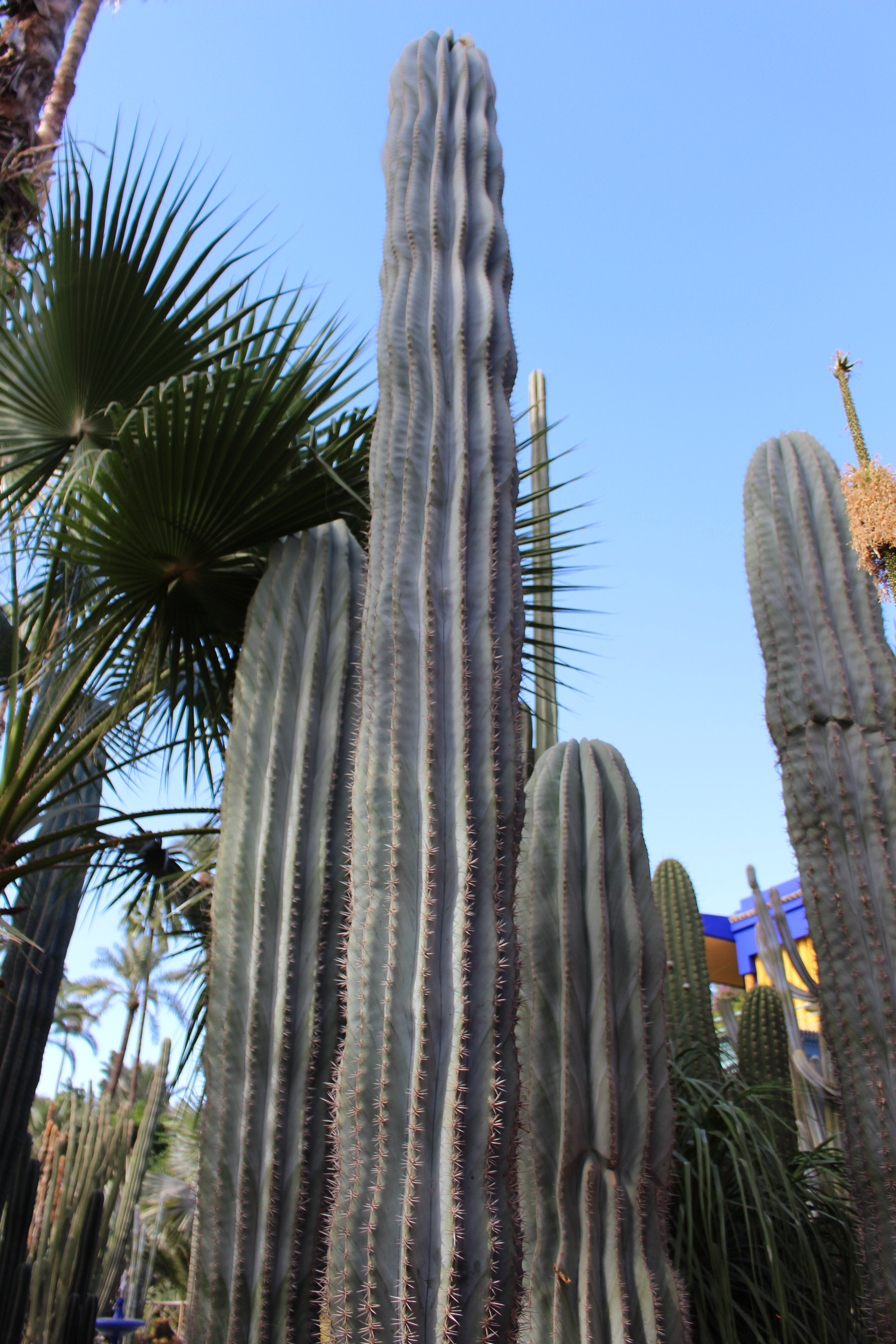 Pilosocereus pachycladus in Majorelle Garden, Marrakesh, Morocco.